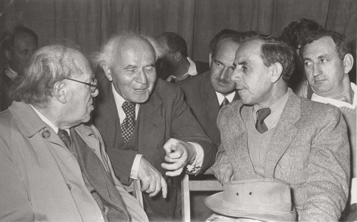 Nathan Goren with the first prime minister of Israel David Ben-Gurion in the end of 1953